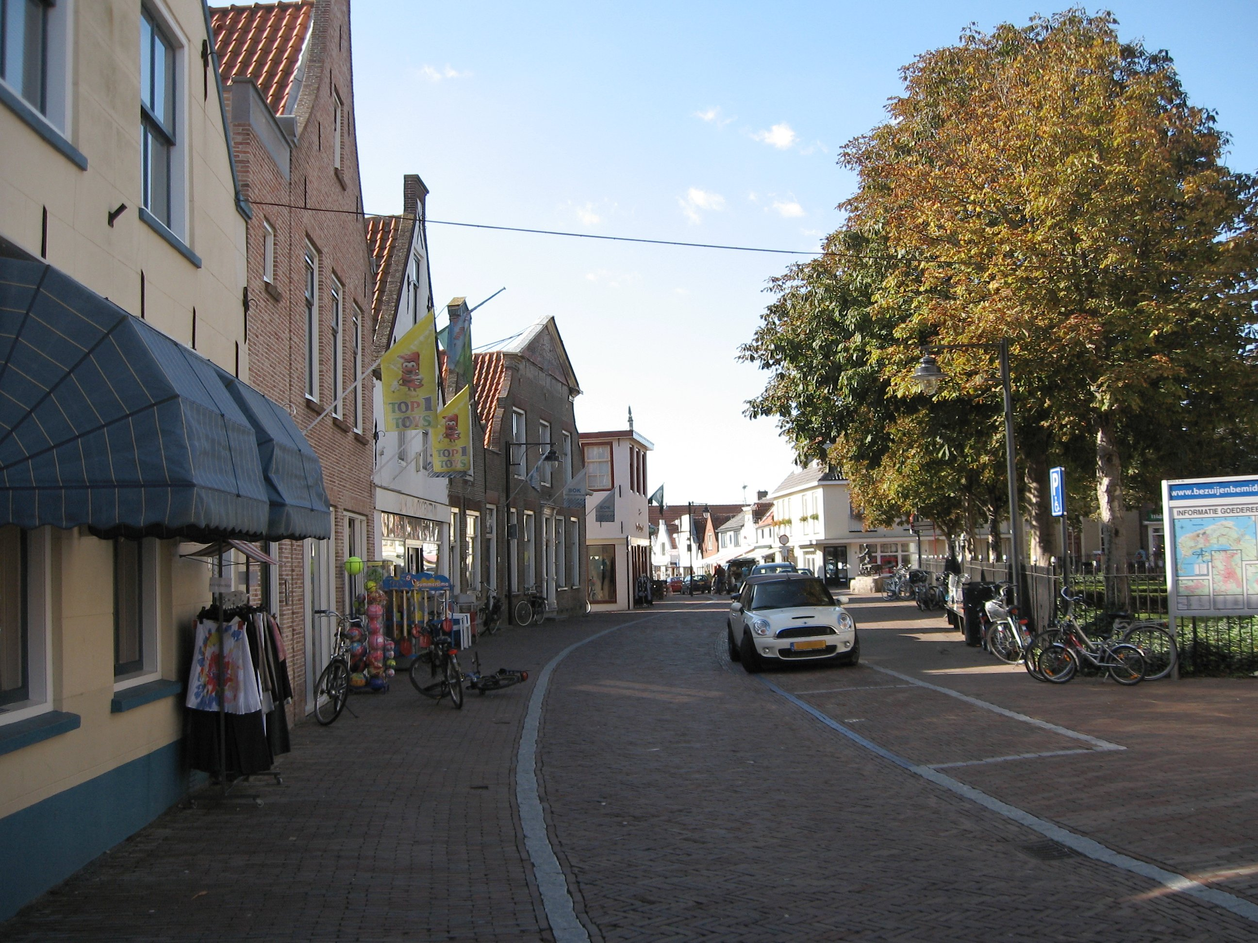 The Weststraat in Ouddorp, The Netherlands. In 2009. See also File:Netherlands-Ouddorp-Weststraat-1910.jpg for the same point of view in 1910.